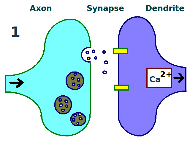 Long term potentiation. A synapse is repeatedly stimulated, sending neurotransmitters from the axon terminal (left) across the synapse to the dendrites of a second neuron (right).